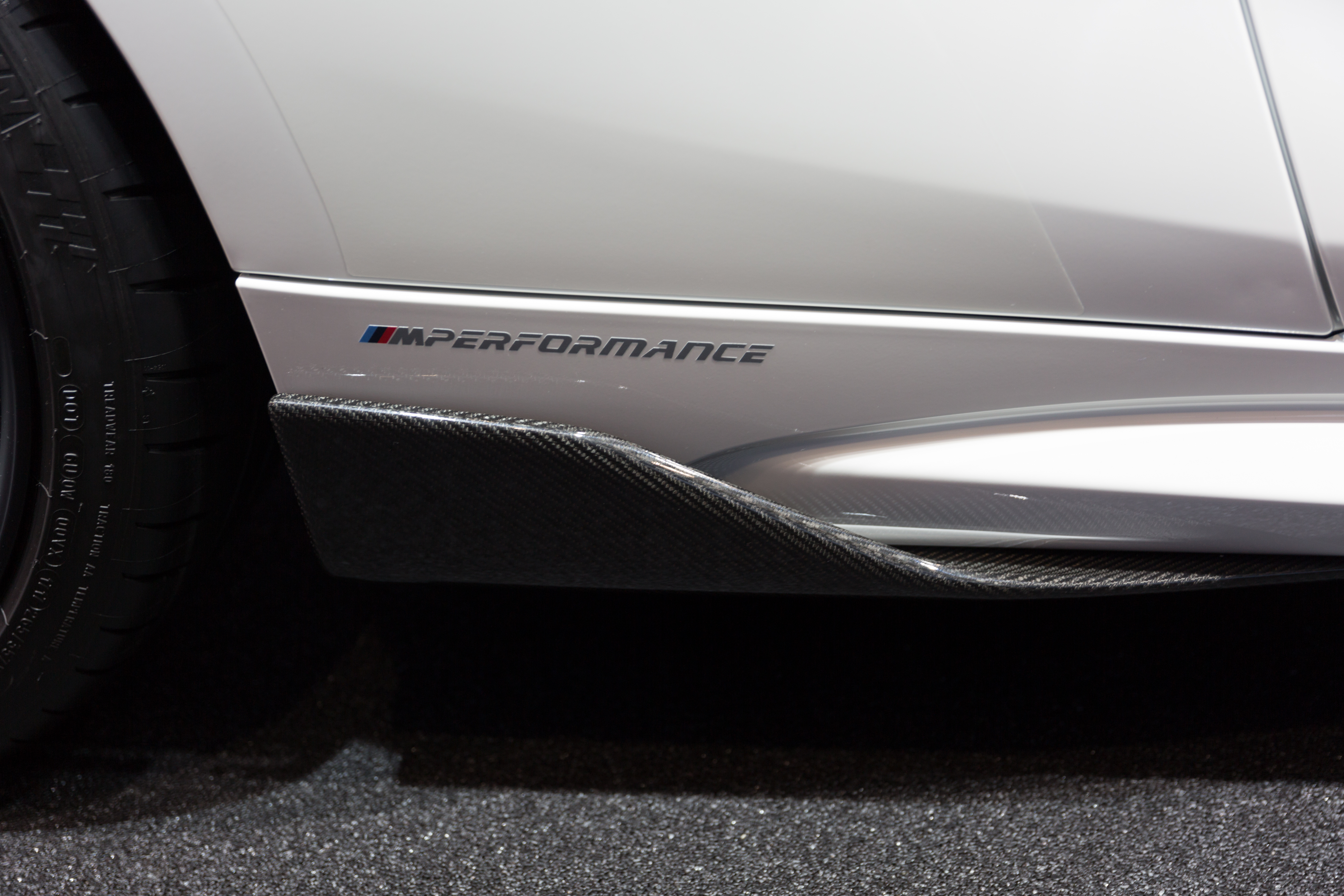 BMW M2 M-Performance, IAA 2017